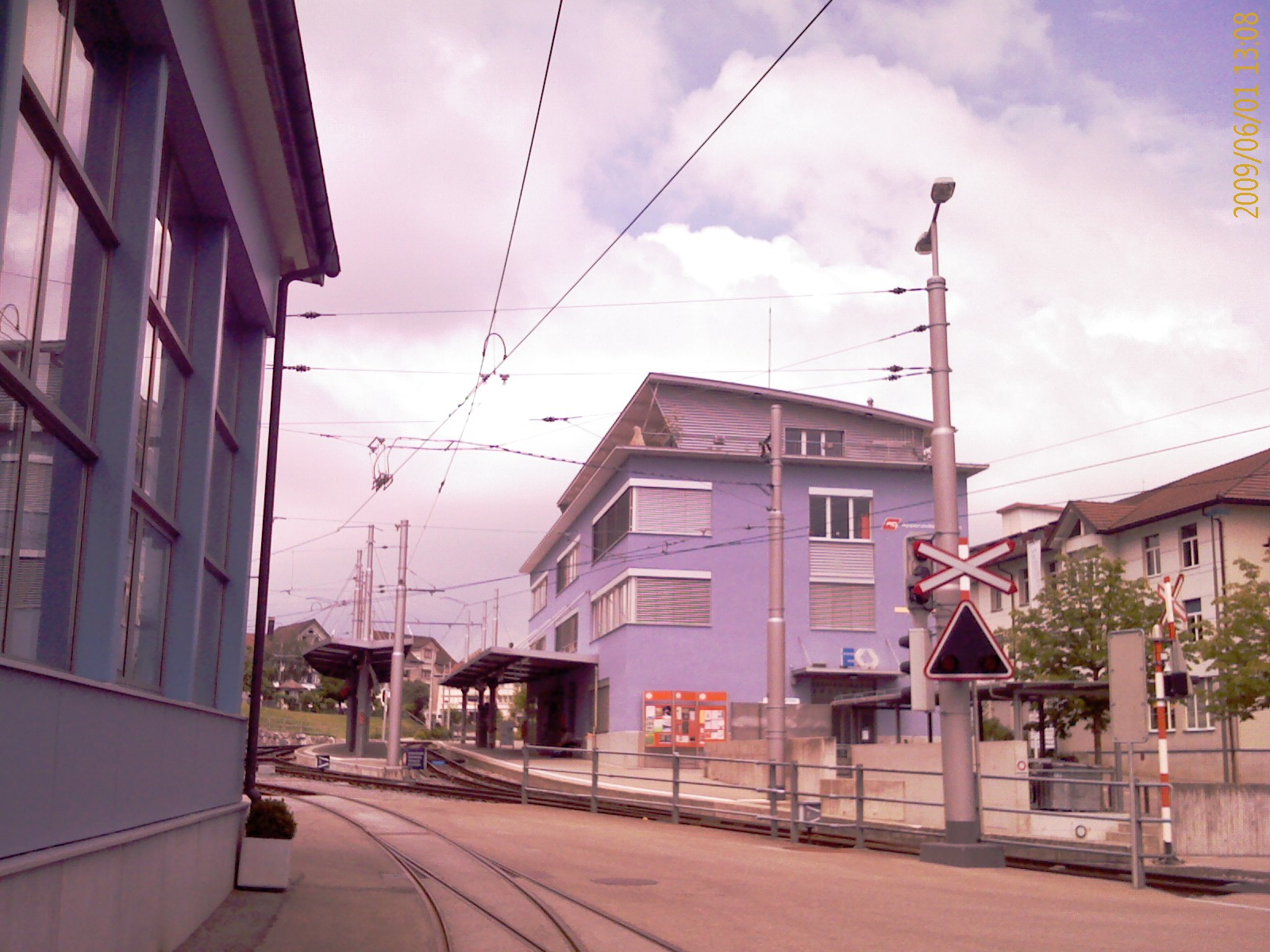 Train Statition of the Railways of Appenzell at Speicher, canton of Appenzell Ausserrhoden, SwitzerlandEsperanto: Stacidomo de Apencelaj Fervojoj en Speicher, Kantono Apencelo Ekstera, Svislando